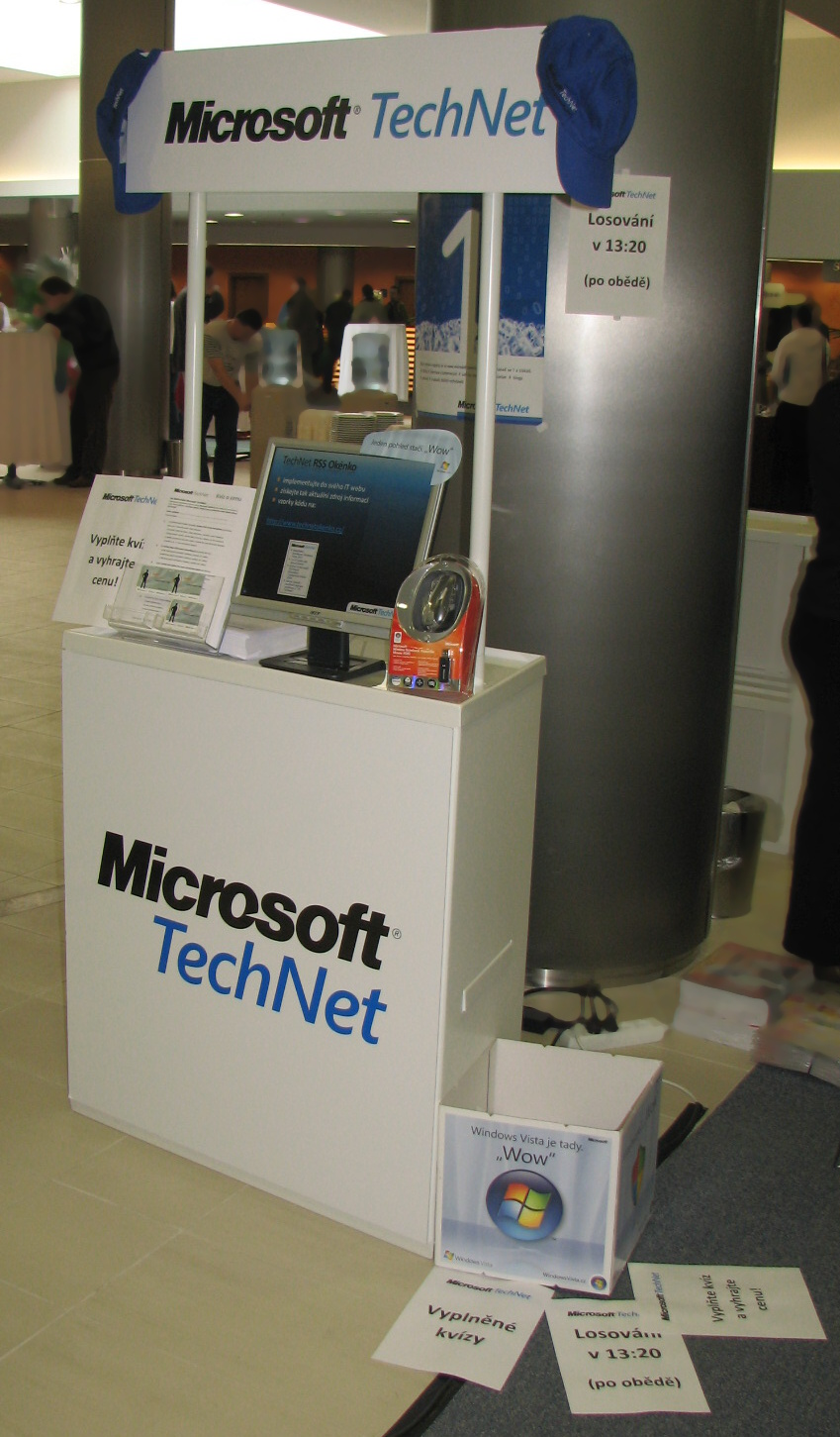 Microsoft TechNet Booth